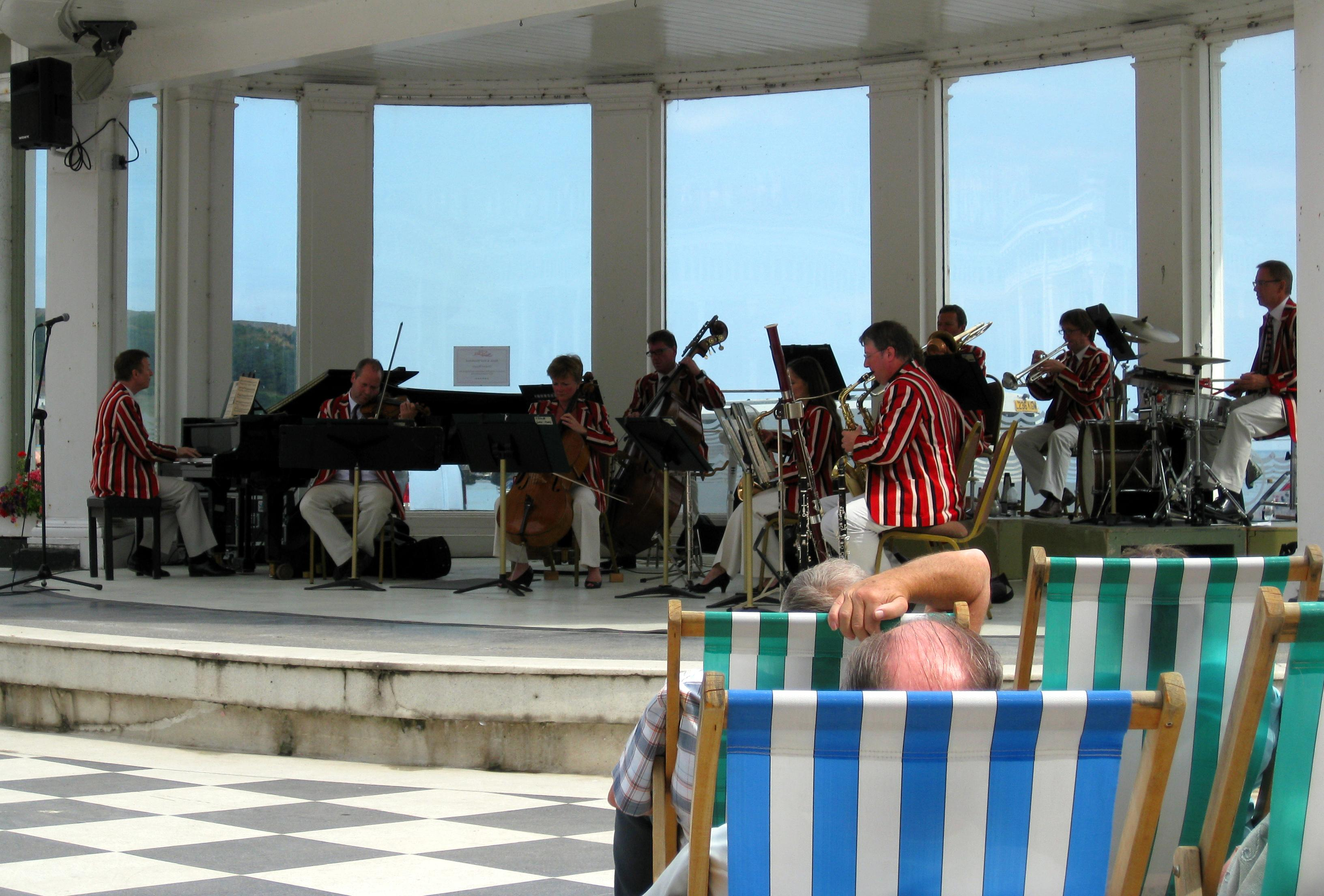 The Scarborough Spa Orchestra, the only surviving professional seaside orchestra in Britain, give a midday concert of light music in August 2009.